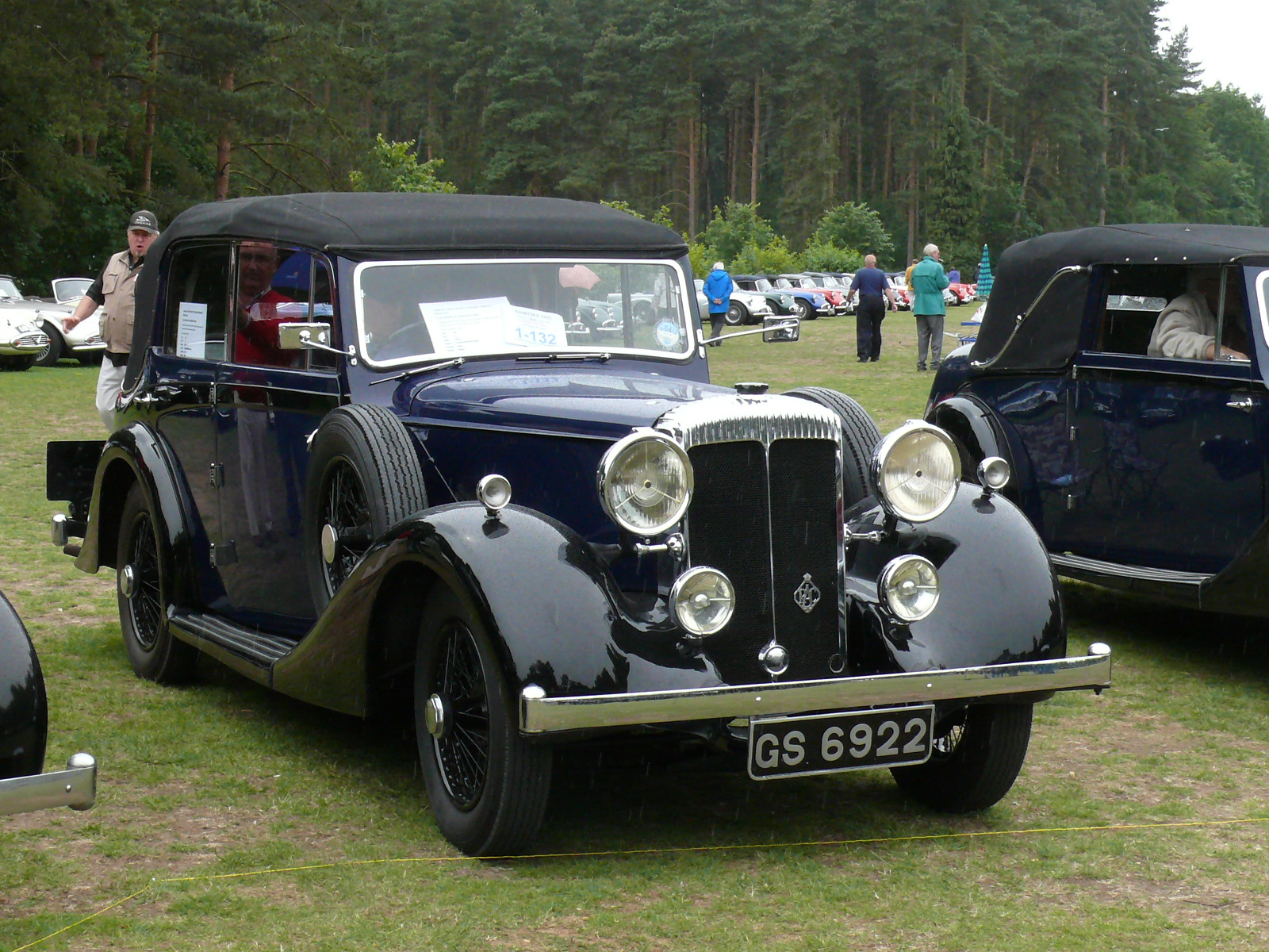 Daimler E20 [GS 6922] Daimler & Lanchester Owners Club, International Rally, Queen's Birthday weekend, Sandringham, Norfolk Sunday 12 June 2011 (DVLA) 2548cc, reg 1 February 1937